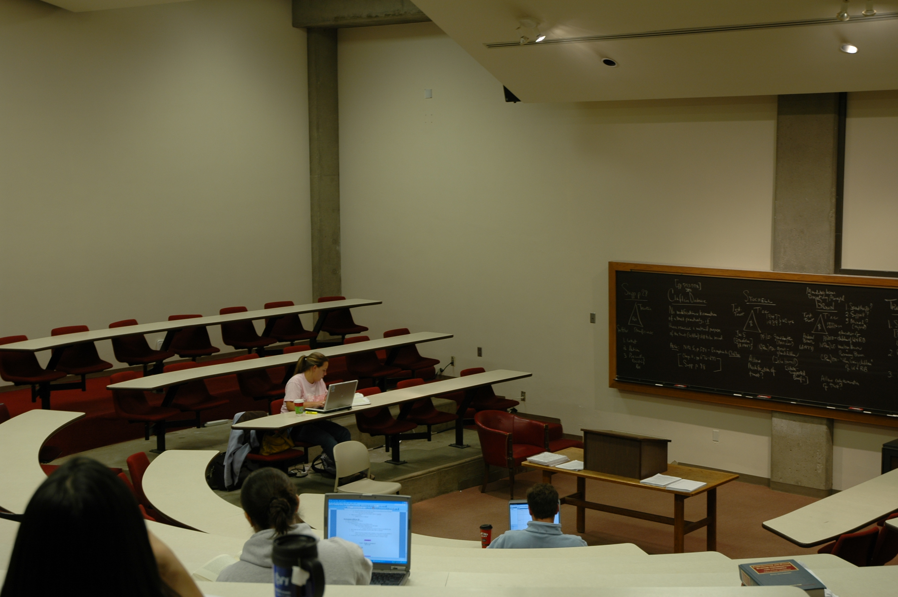 Lecture hall on first floor